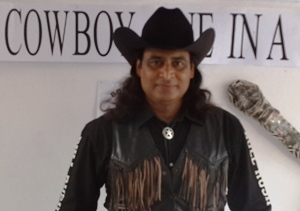 Bobby Cash.jpg is a free work. This file is entirely my work taken in Nainital, uttarakhand, India on May 24, 2014. I license it under Creative Commons Attribution-ShareAlike license 3.0